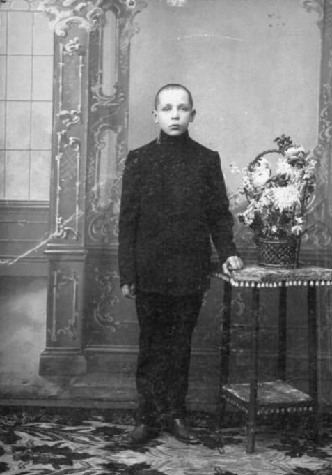 Pavel Ivanovich Batov at 1910 - 1913